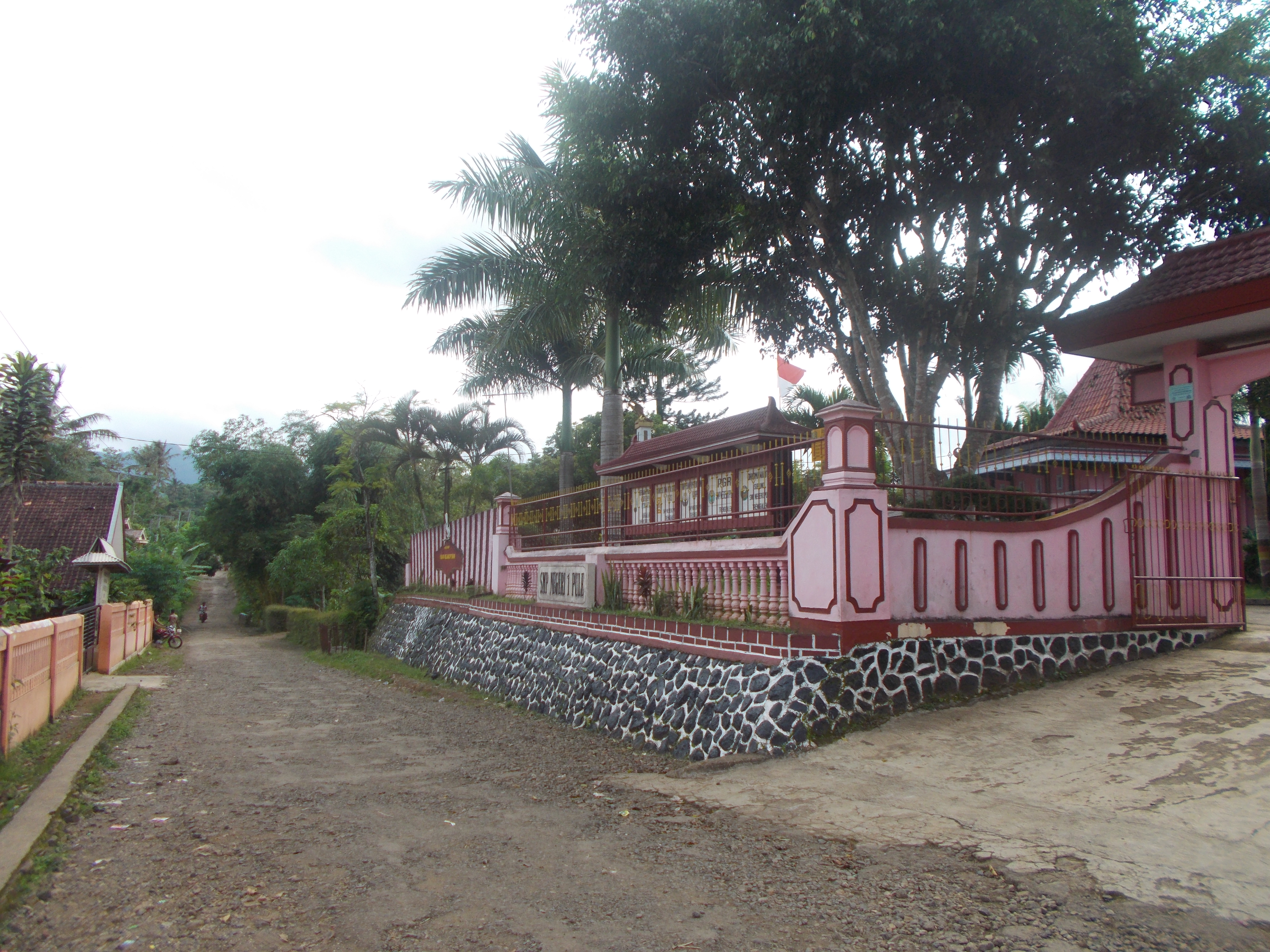 Road to Junior High School 1 Pule